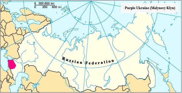 Malynovy Klyn (Ukrainian: Малиновий клин